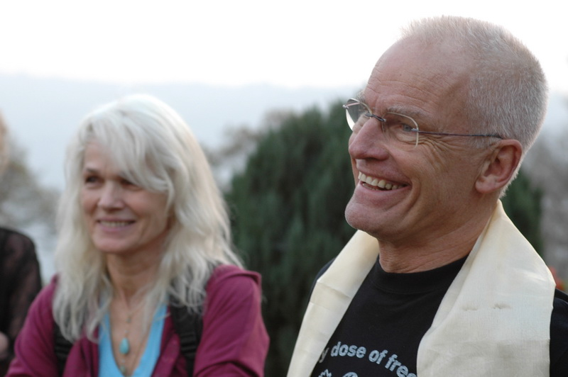 Lama Ole und Hannah Nydahl (1946-2007)